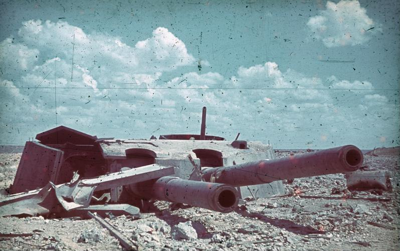 Destroyed 12-inch (Obukhovskii 12-inch Pattern 1907 gun) twin turret, Fort Maxim Gorky, Sevastopol, Russia